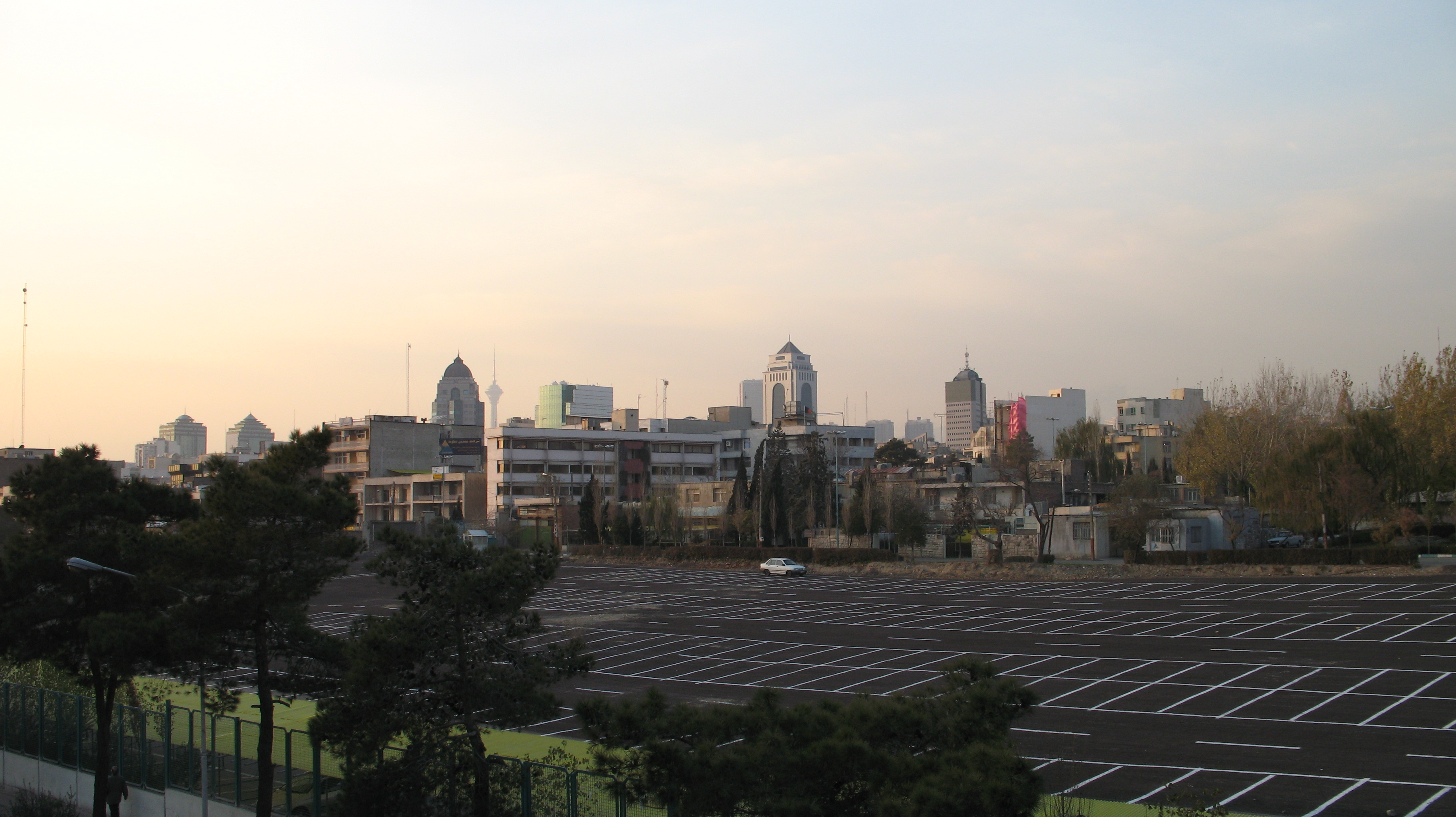 Central Tehran